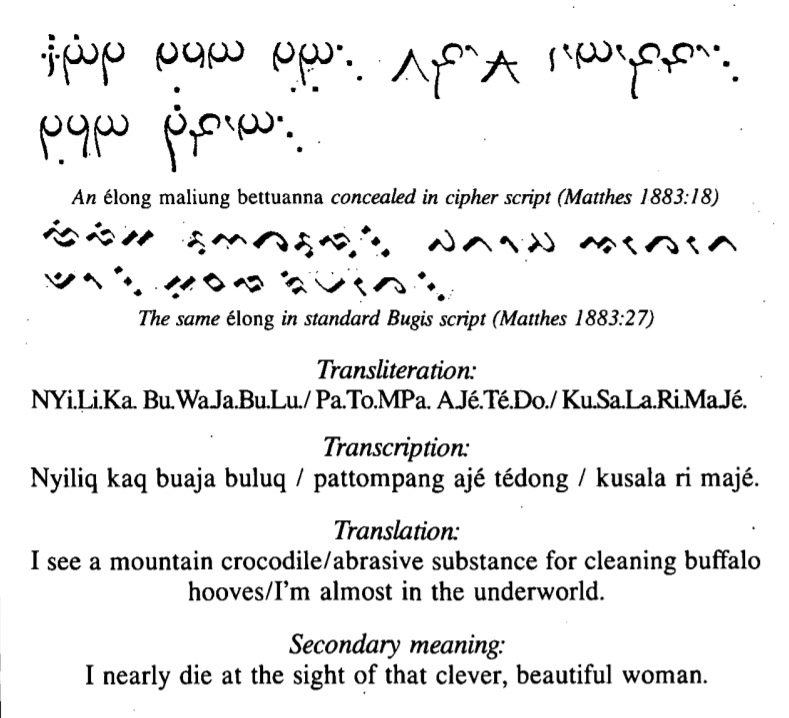 A sample of élong maliung bettuanna poetry of Bugis language, cited by B F Matthes